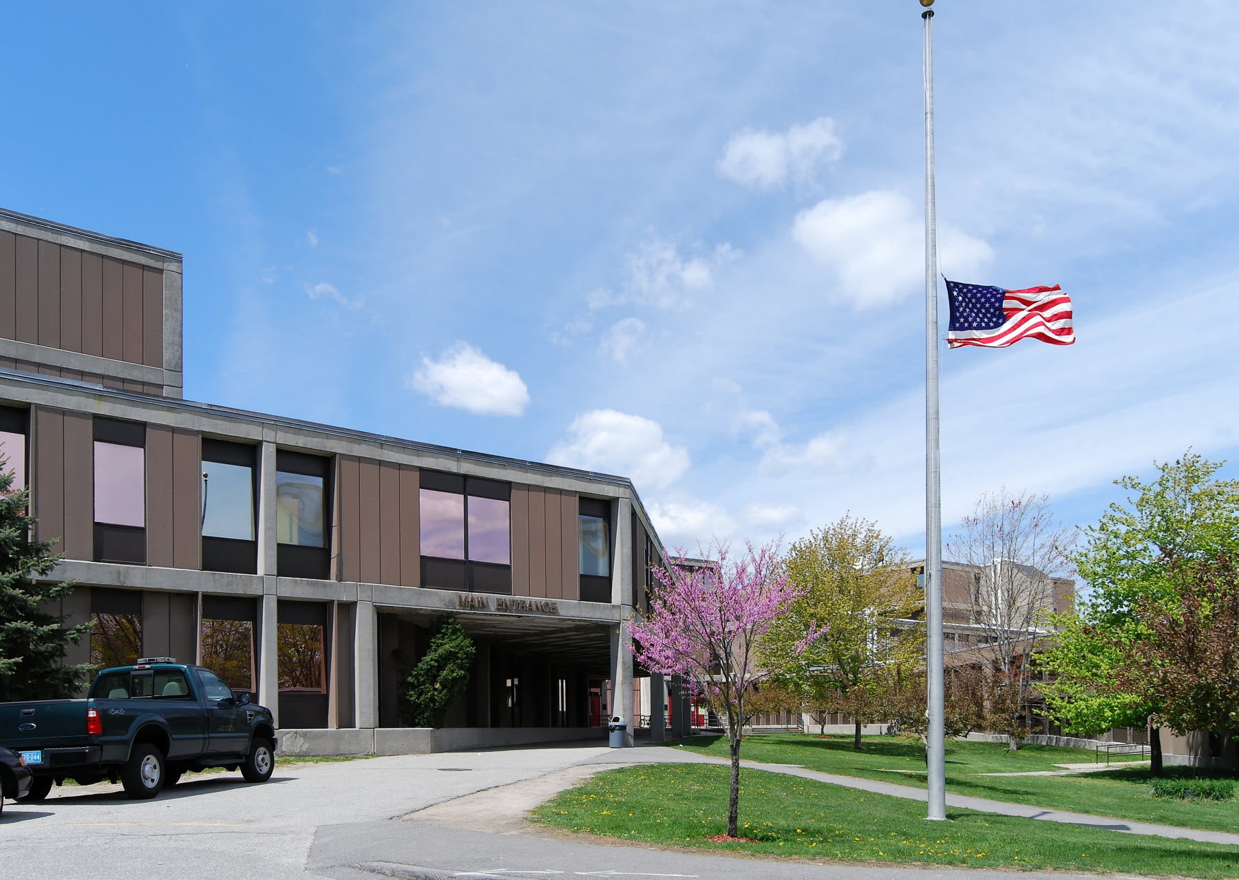 BMC Durfee High School, Fall River, Massachusetts